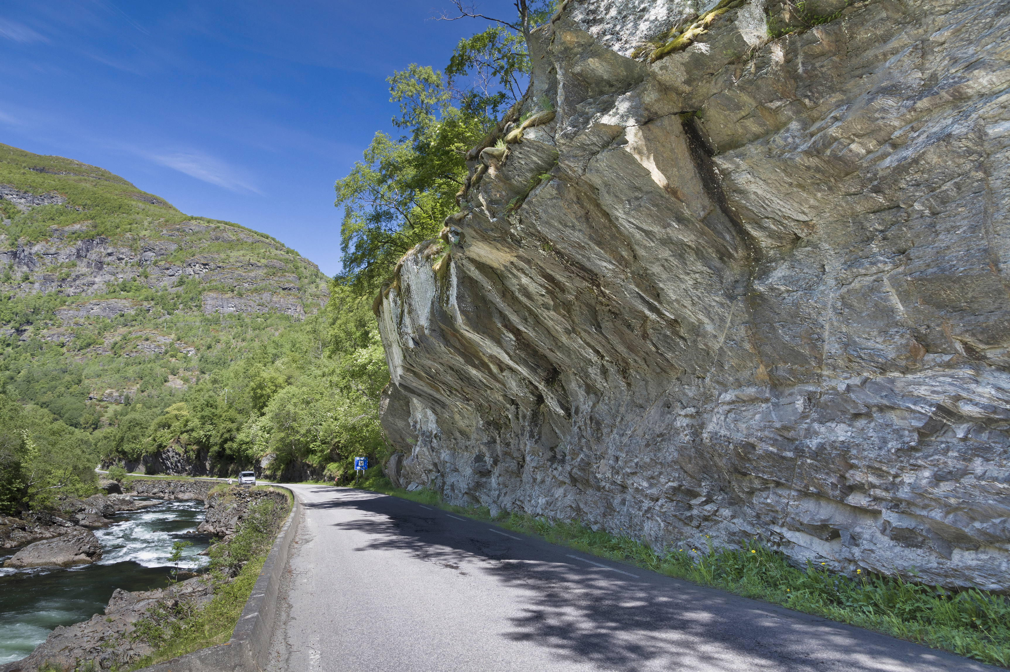 Rock face by the Fv630 road in Lærdalen, Lærdal municipality, Sogn og Fjordane, Norway in 2013 June. The river on the left is Lærdalselvi.